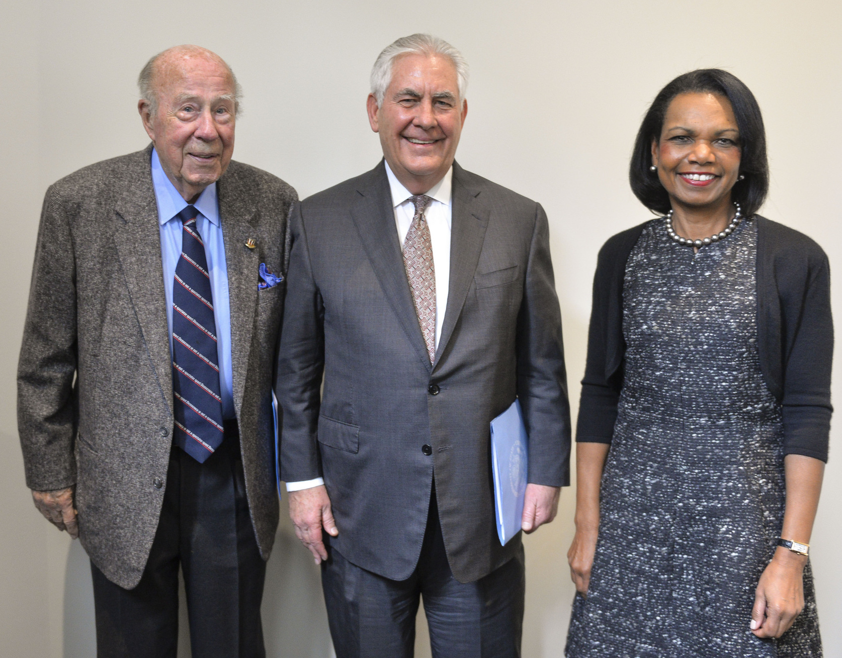 U.S. Secretary of State Rex Tillerson and former U.S. Secretary of State Condoleezza Rice and George P. Shultz meet prior to Secretary Tillerson's Stanford University speech on the Way Forward for the United States regarding Syria, at the Hoover Institute, Stanford University, in Stanford, California on January 17, 2018. [State Department Photo/ Public Domain]